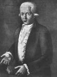 drawing of Joseph Hector Fiocco